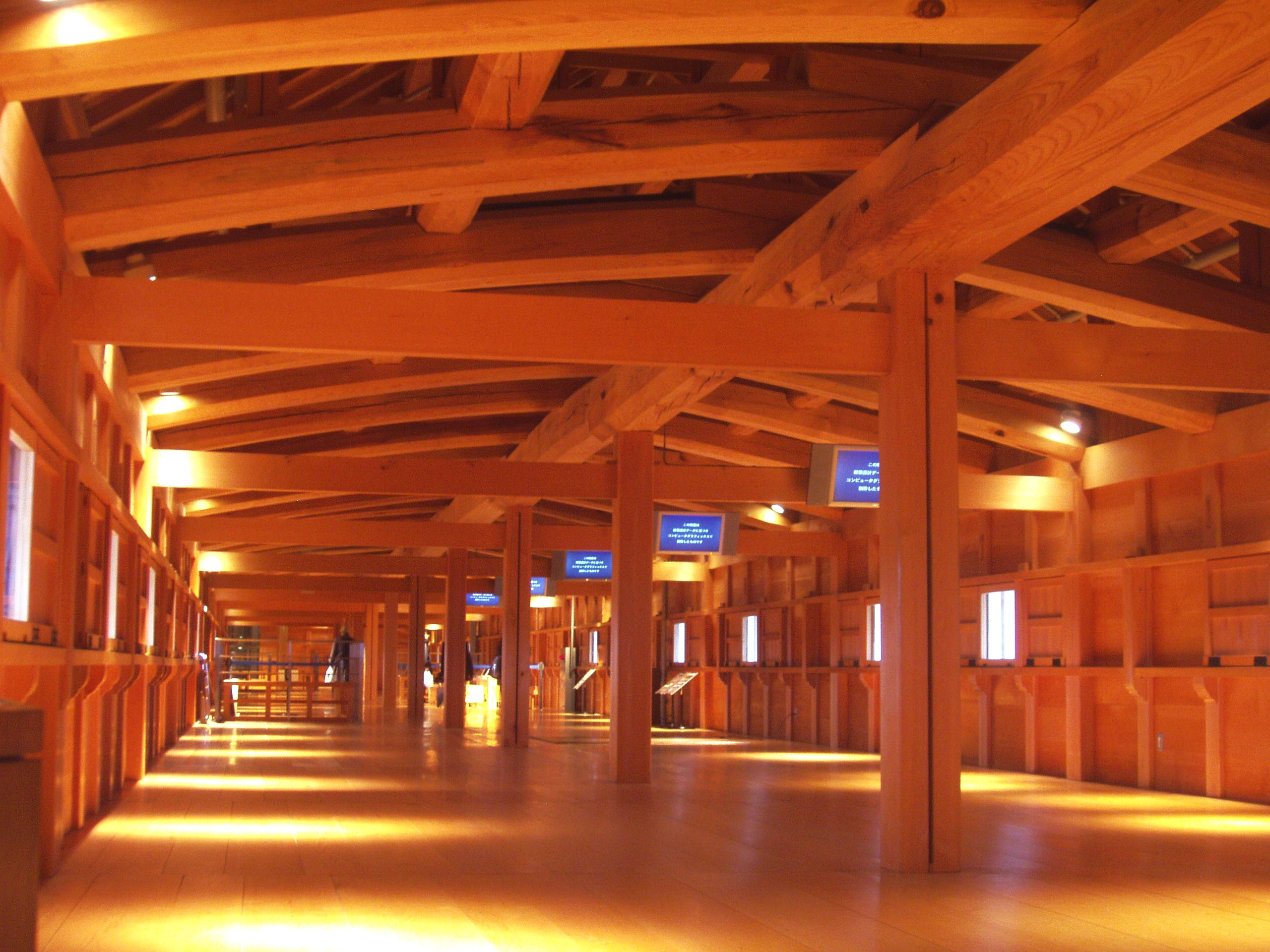 Kanazawa Castle (interior) - Kanazawa, Ishikawa Prefecture, Japan. Photograph taken by me, mid-November 2005.